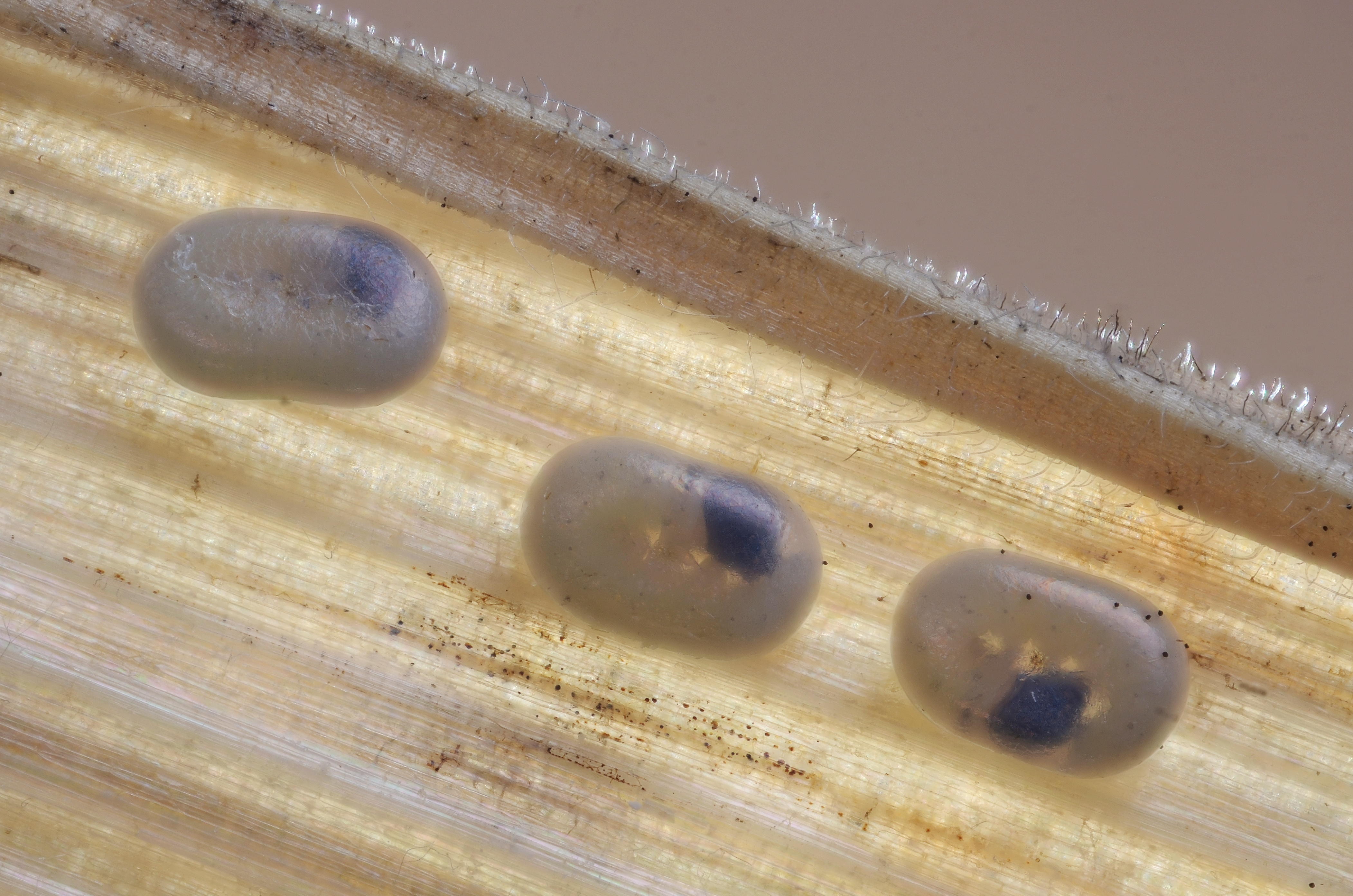 Thymelicus sylvestris eggs with young caterpillars visible trough the eggshell. NB : In contrast with other Thymelicus species, T. sylvestris normally lay its eggs on green leaves. Here the eggs were collected by Stéphane Claerebout (thanks to him !!) just after egg laying but I made the pictures some times later, and the leaves have dried in the meanwhile... The eggs are laid between the stem (that has been removed for the picture) and the leaf sheath. The compretion of the eggs between the stem and the sheath is causing the typical flattening of these eggs. Egg length = ~ 2mm - Focus stack of 60 pictures - Schneider Kreuznach Componon 28 mm f/4 at f/4 reversed on bellow - Lighting with 2 flashes : one highly diffused form above the eggs, one from behind the leaf not diffused